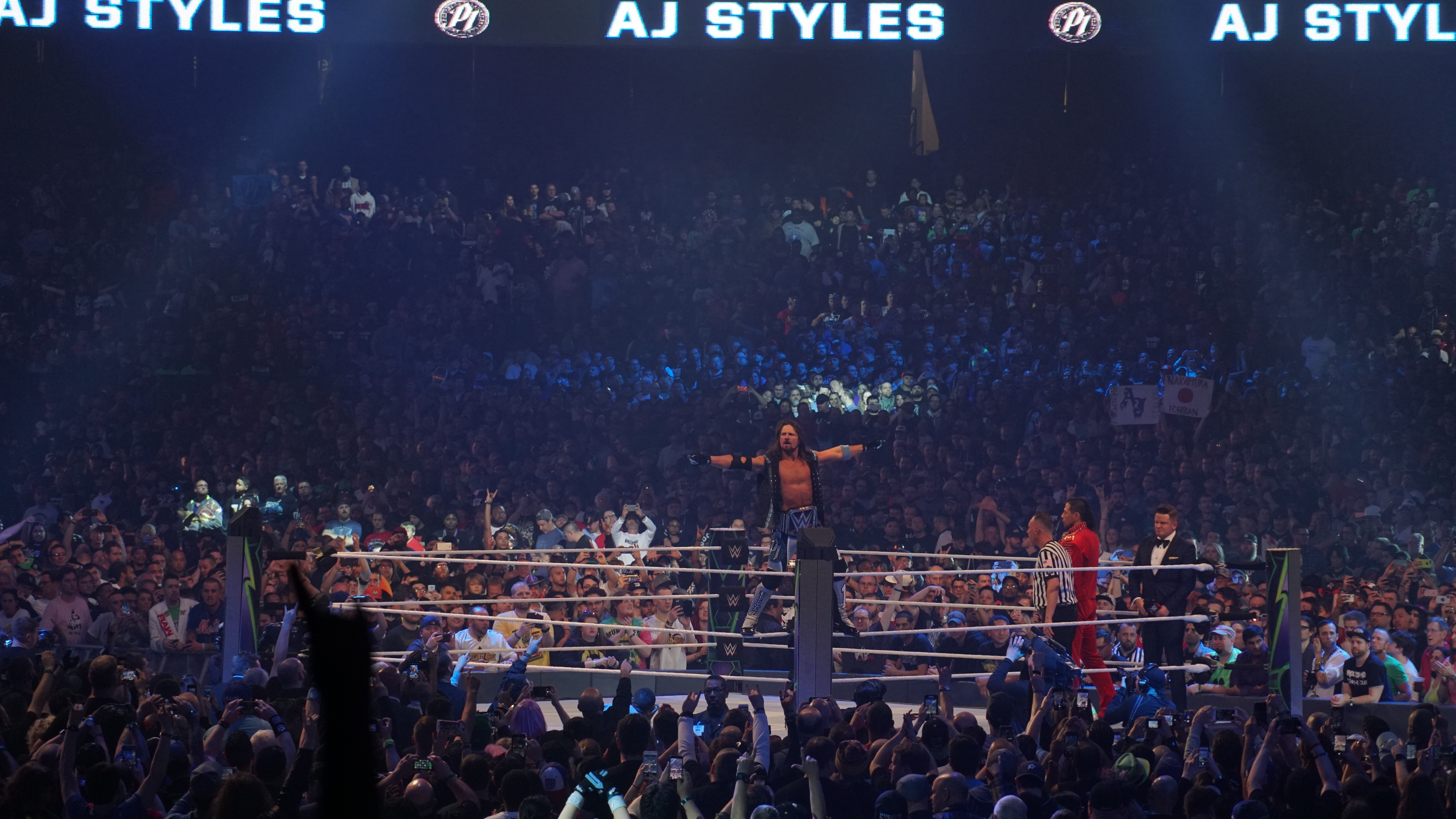 AJ Styles as the WWE Champion at WrestleMania 34 q